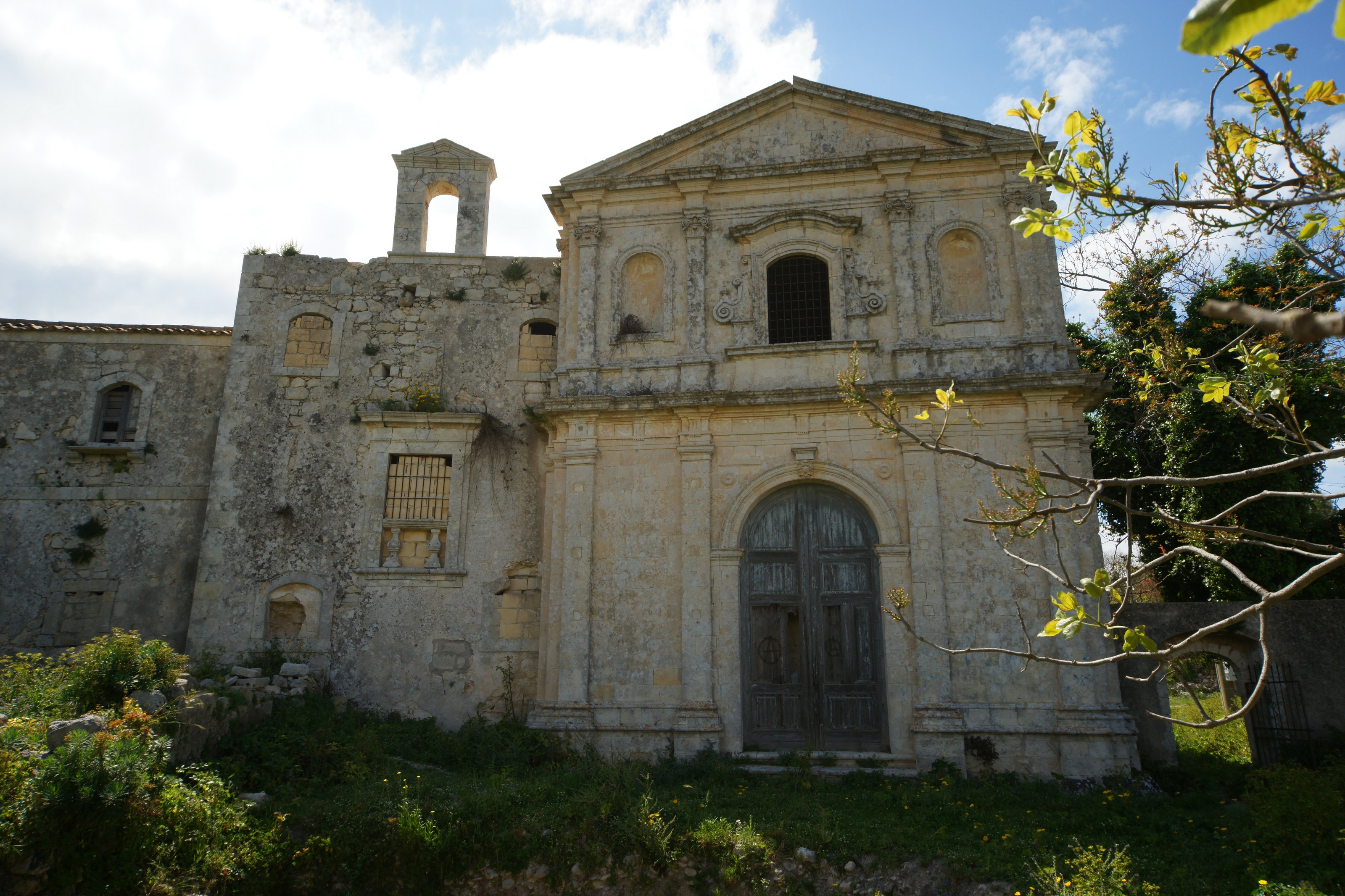 Noto Antica: Eremo S.Maria della Provvidenzia